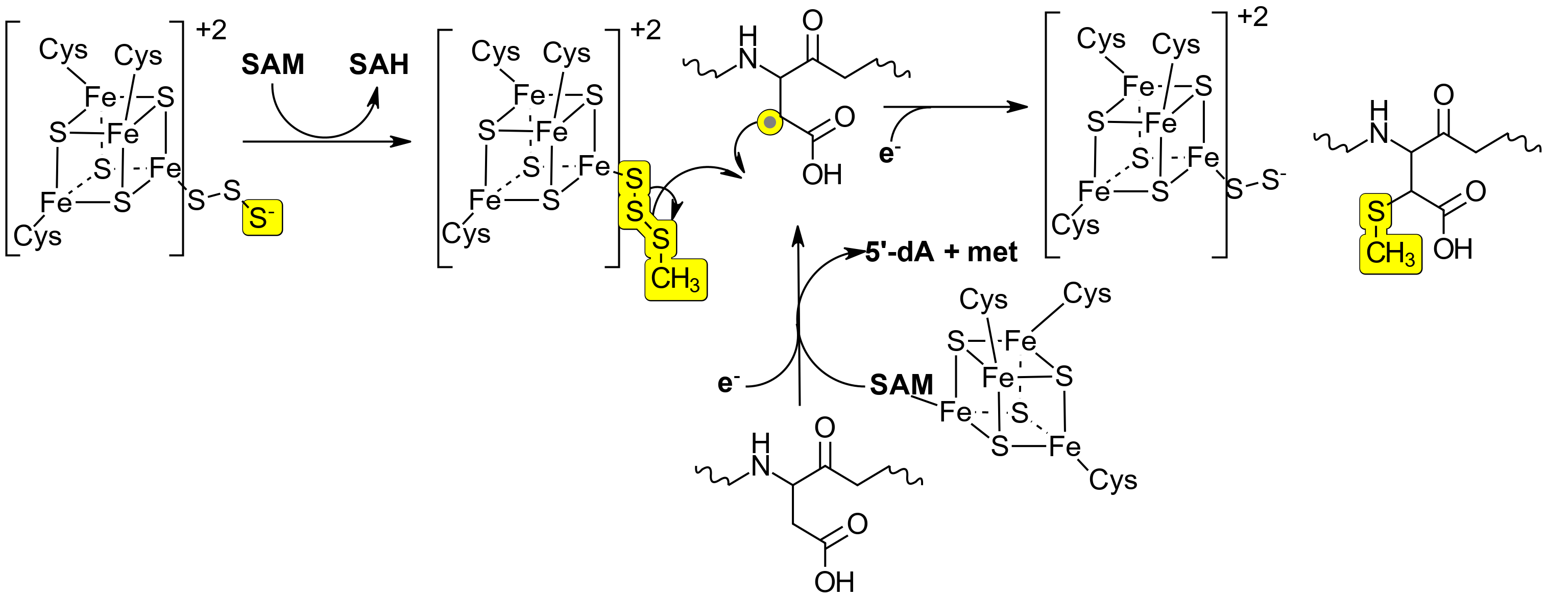 Adapted from Landgraf, Bradley J.; Arcinas, Arthur J.; Lee, Kyung-Hoon; Booker, Squire J. (2013-10-16). "Identification of an Intermediate Methyl Carrier in the Radical S-Adenosylmethionine Methylthiotransferases RimO and MiaB". Journal of the American Chemical Society. 135 (41): 15404–15416.